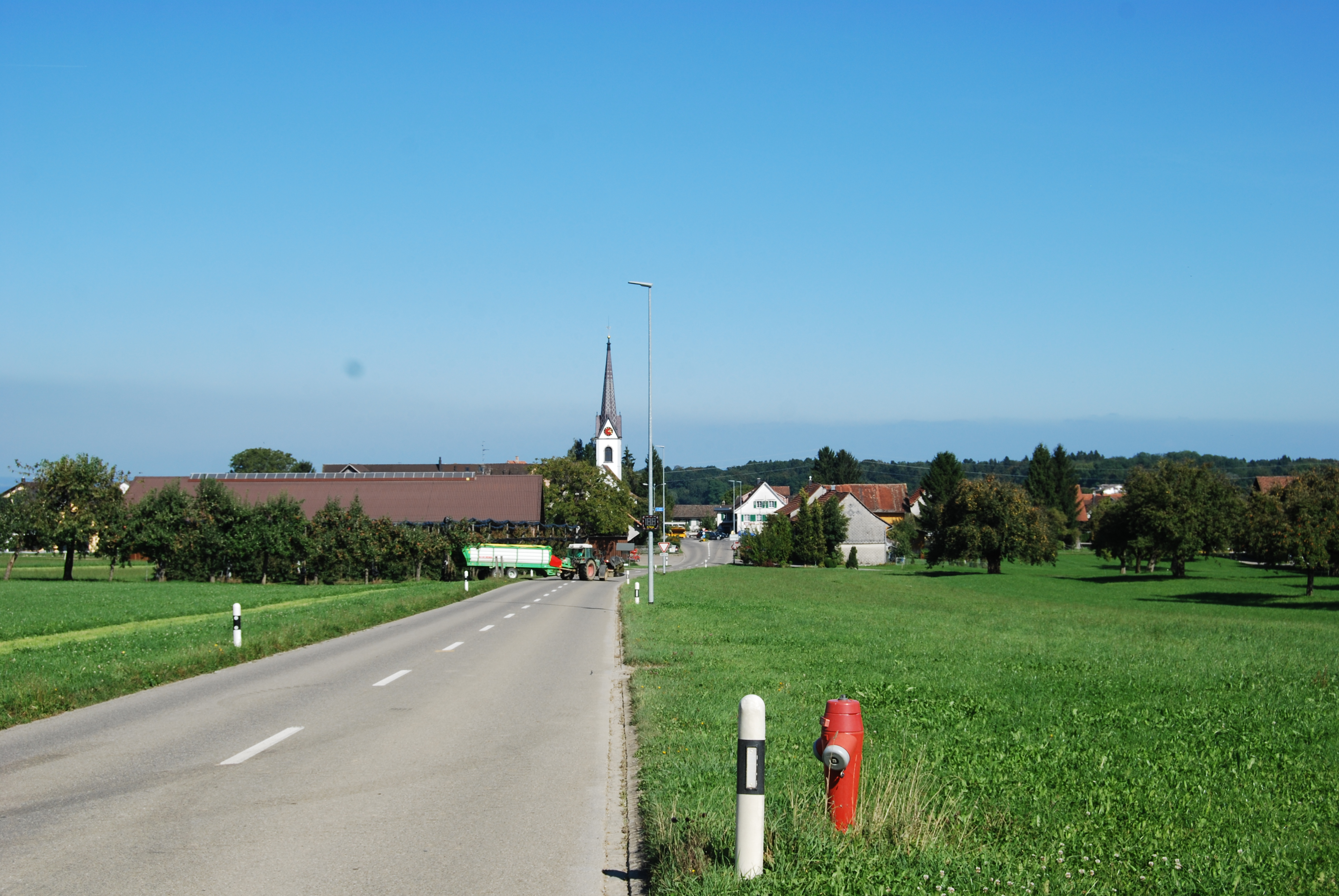 Langrickenbach, canton of Thurgovia, Switzerland